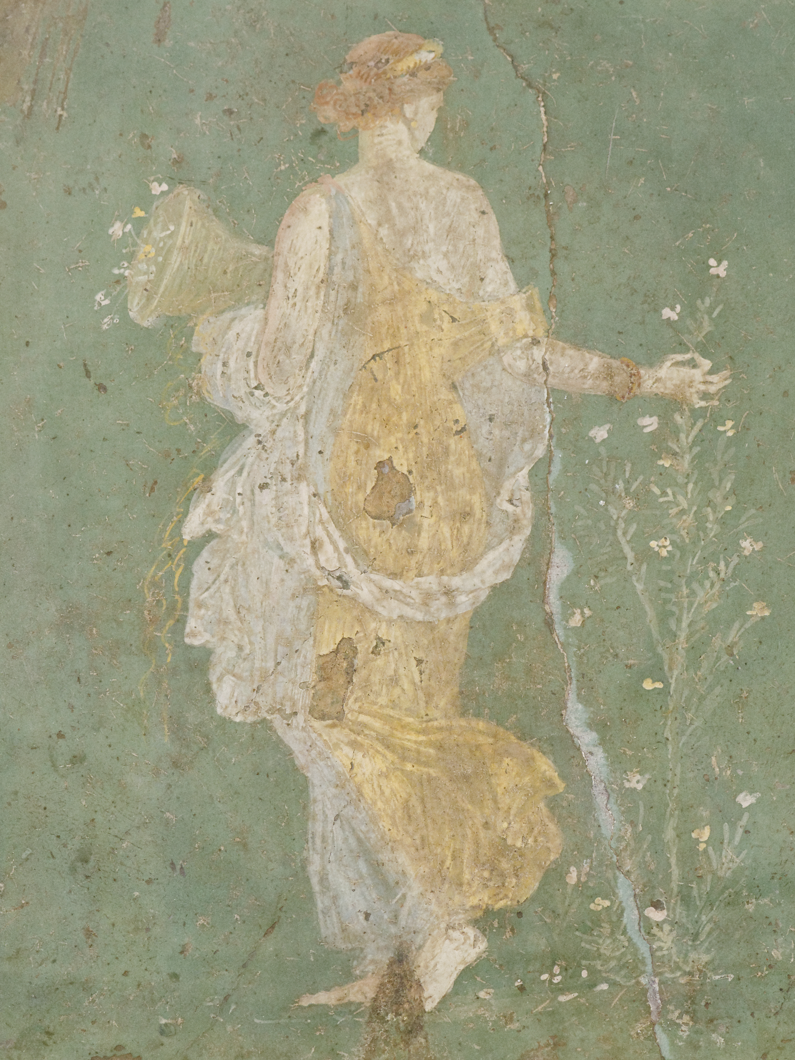 So-called Flora.